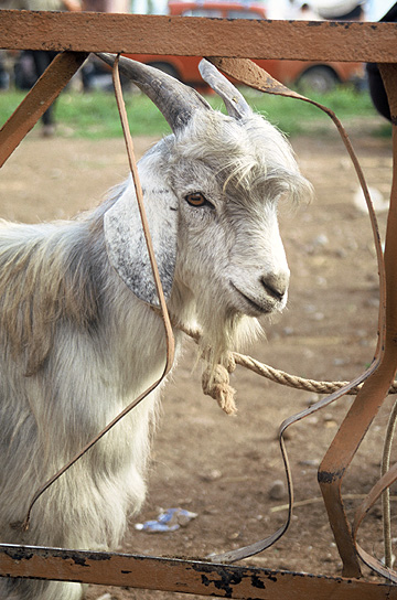 Goat, tethered to rusty, battered railings, in Karakol market, Kyrgyzstan.